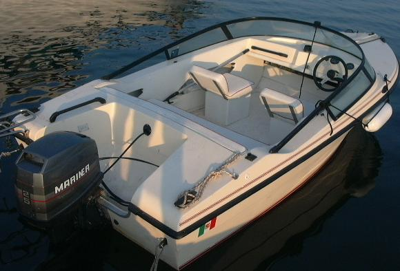 A boat with a "Mariner" brand outboard motor.